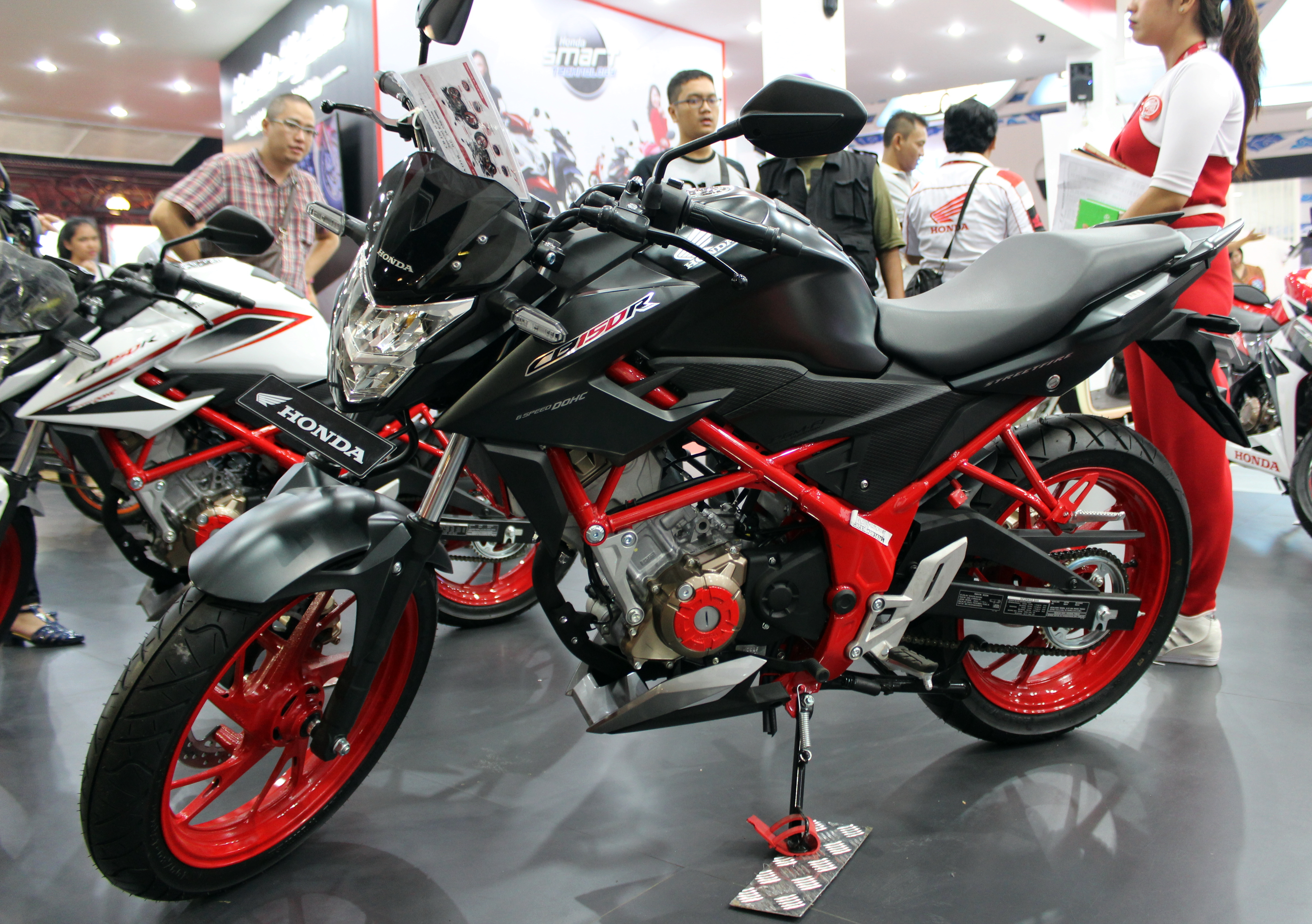 A Honda CB150R Streetfire Special Edition photographed in Jakarta Fair 2016, Jakarta, Indonesia on June 21, 2016.